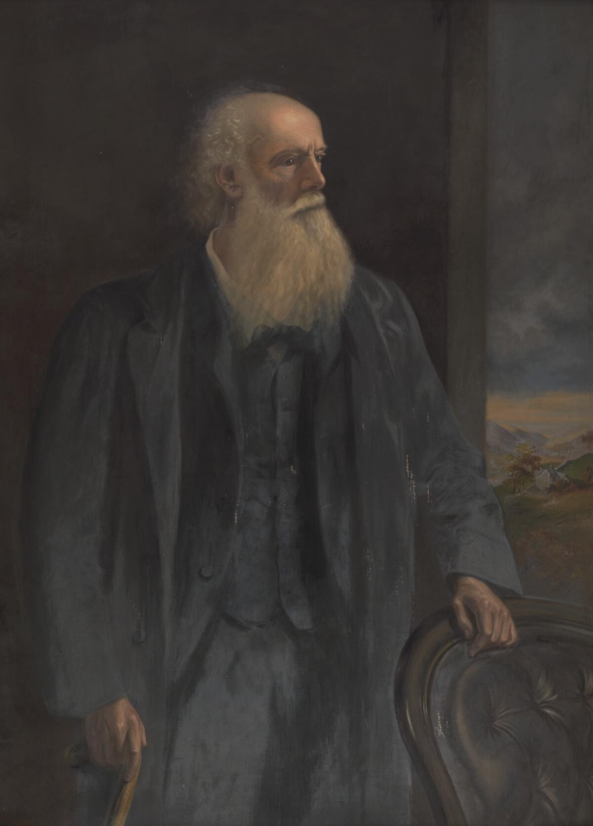 A painting from the Framed Works of Art collection at the National Library of wales.